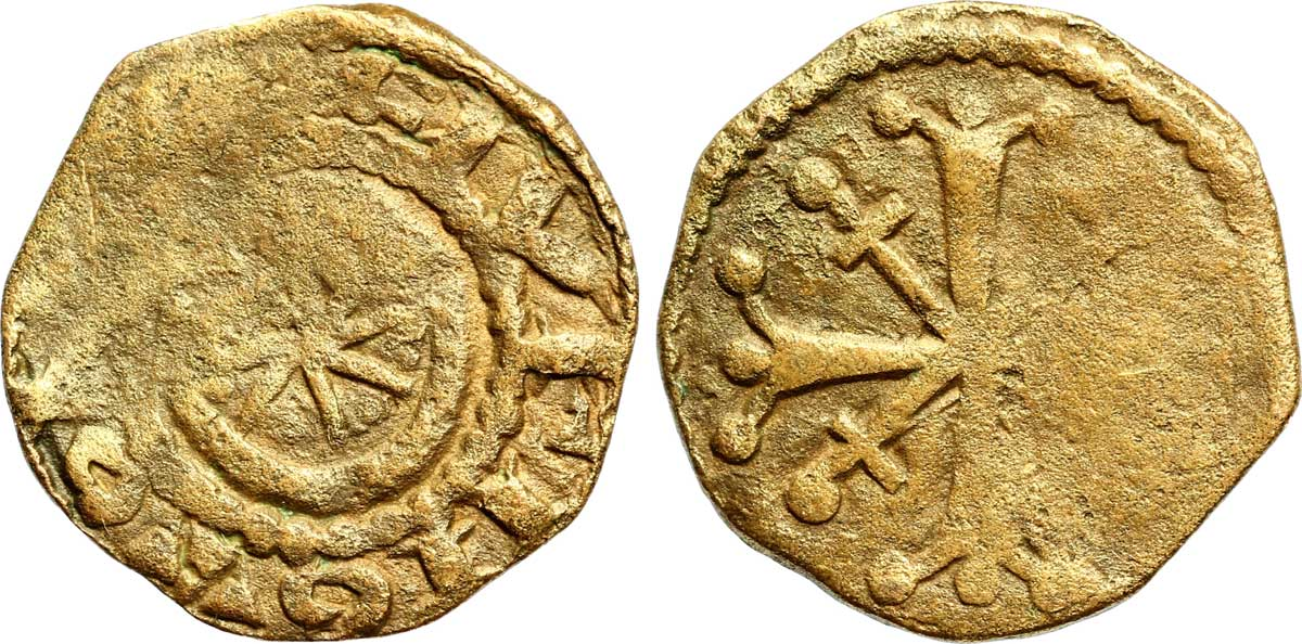 Pougeoise de la Terre Sainte, Comté de Tripoli sous Raymond III de Tripoli (1152-1187)